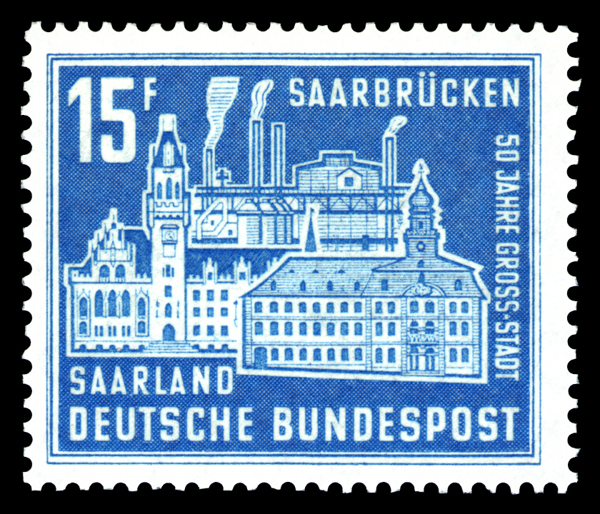 50 years of big city Saarbrücken Graphics by Schmidt Ausgabepreis: 15 Saar-Franken First Day of Issue / Erstausgabetag: 1. April 1959 Michel-Katalog-Nr: 446 (Saarland)